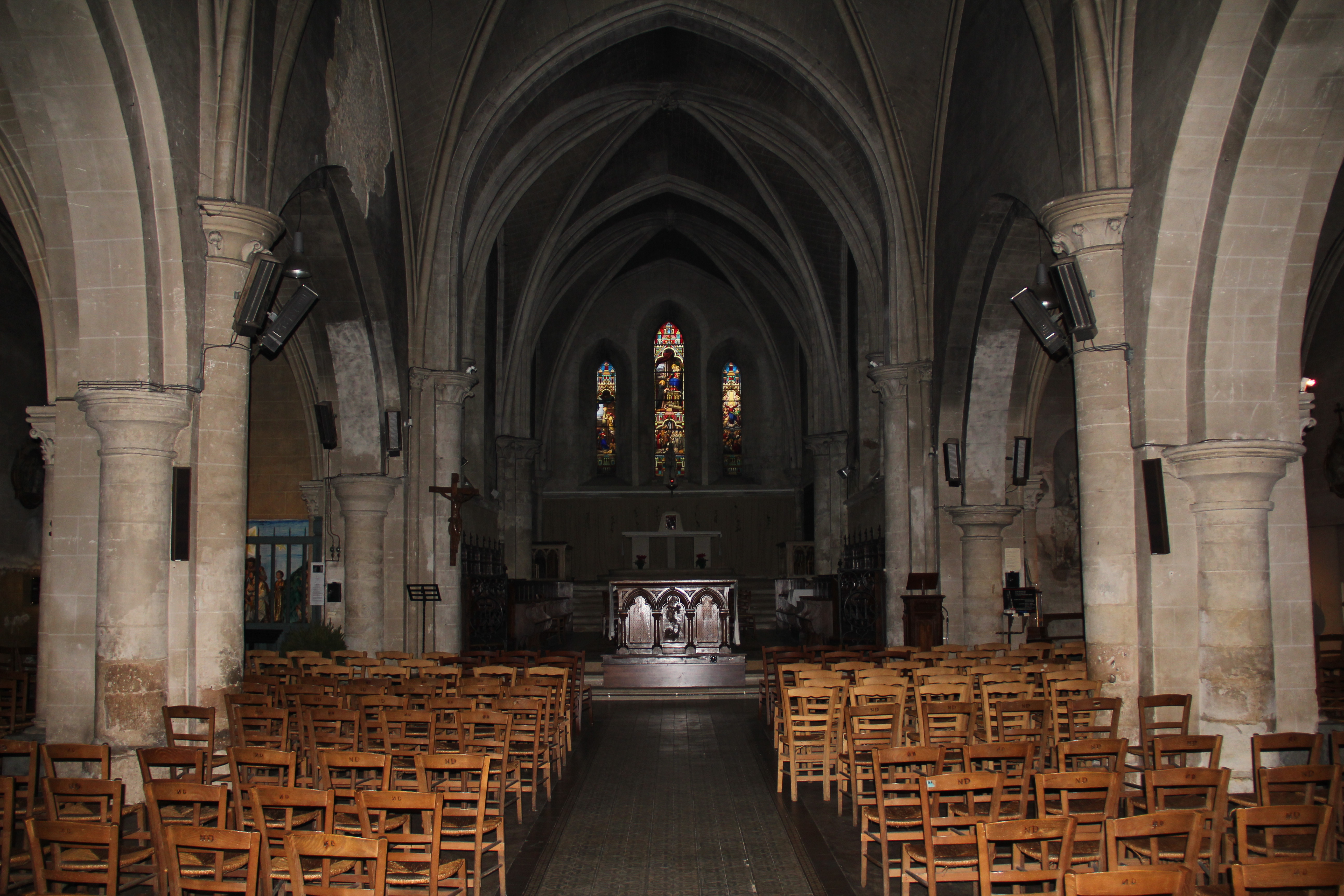 The nave of Notre-Dame Church, in Nogent-le-Rotrou, Eure-et-Loir, France.